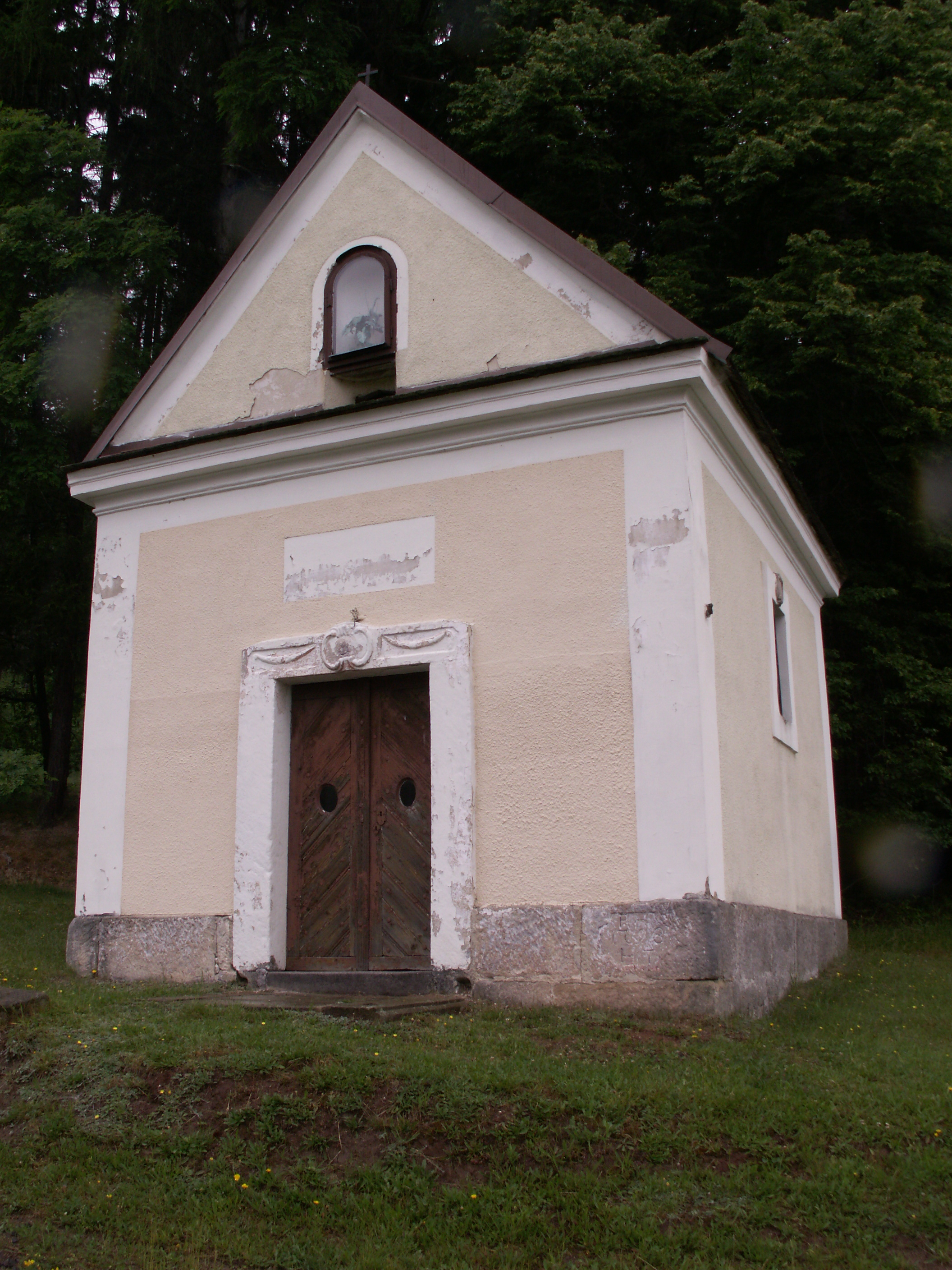 KONICA MINOLTA DIGITAL CAMERA, kaple svaté Anny, Martínkovice, okres Náchod, Královéhradecký kraj